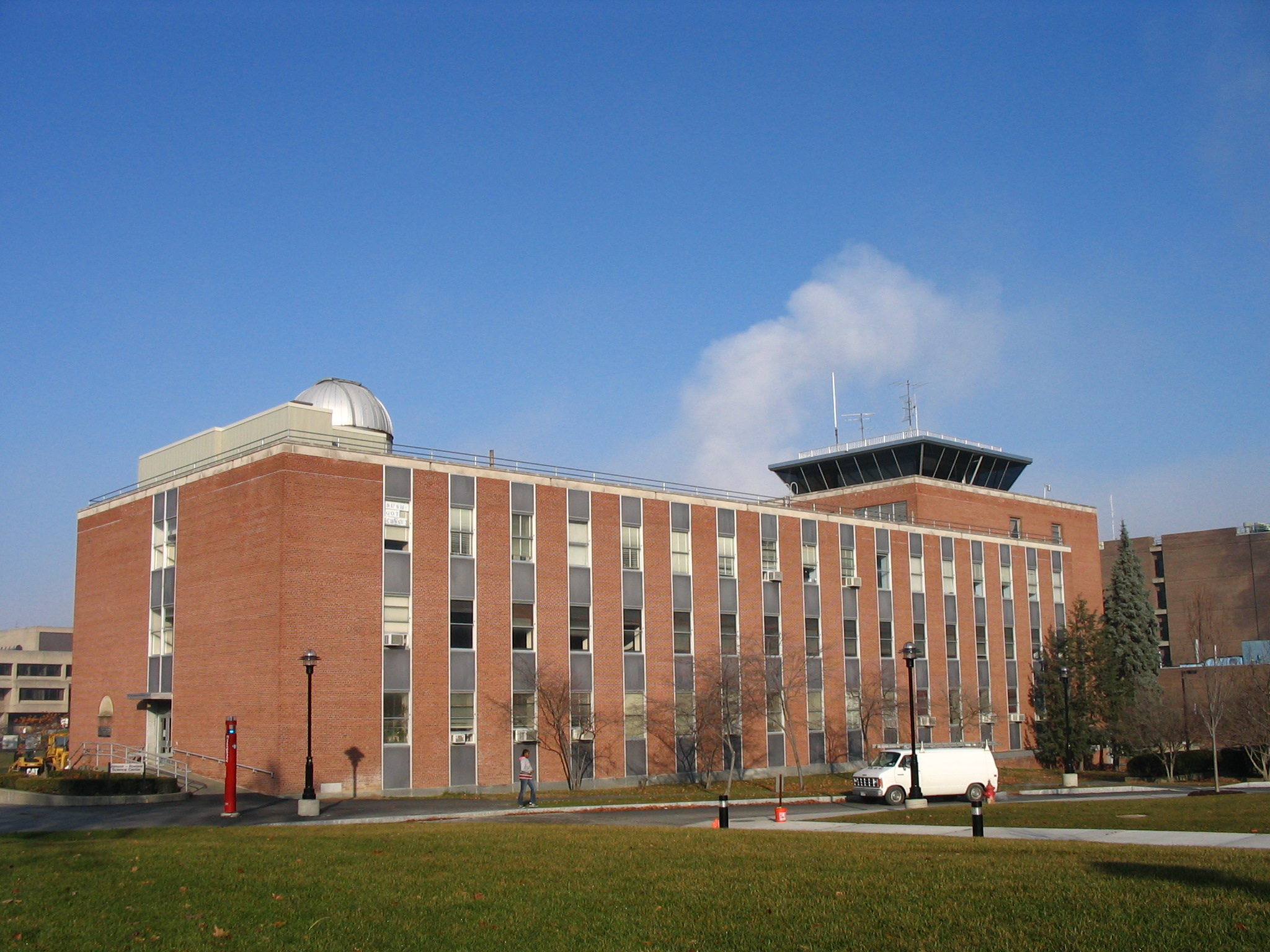 Sasseville Jonsson-Rowland Science Center The Hirsch Observatory can be seen on the left side of the roof, and an old Aircraft Control tower to the right